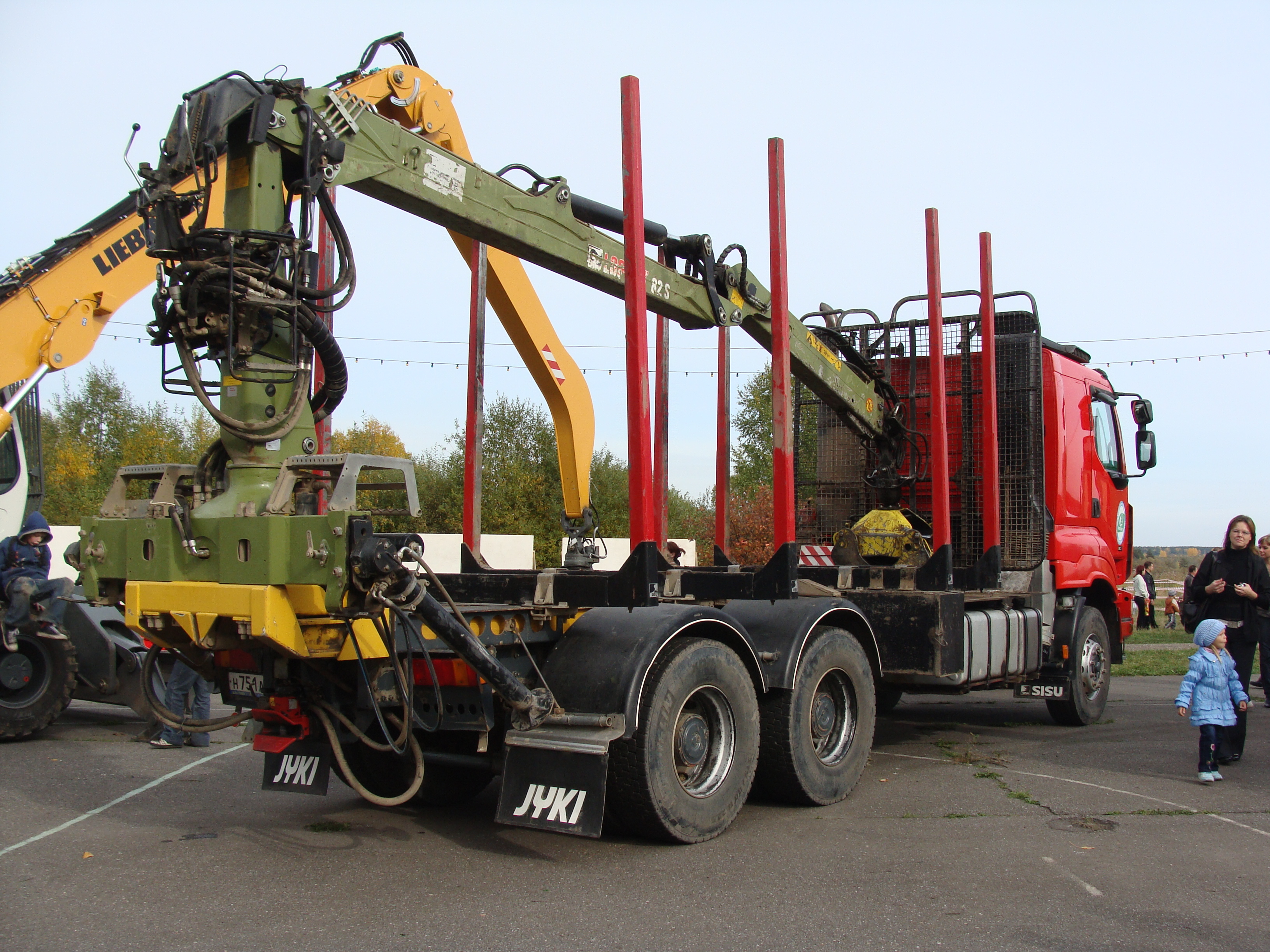 SISU C500 E13M K-KK 6x4/475+130